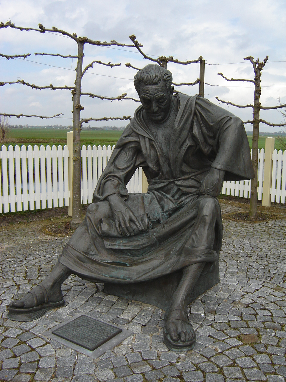 Sculpture (2001) by Carsten Eggers: Hendrik, priester uit Jacobswoude, die in 1113 naar Das Alte Land in Duitsland trok om de moerassen aan de monding van de Elbe te ontginnen.